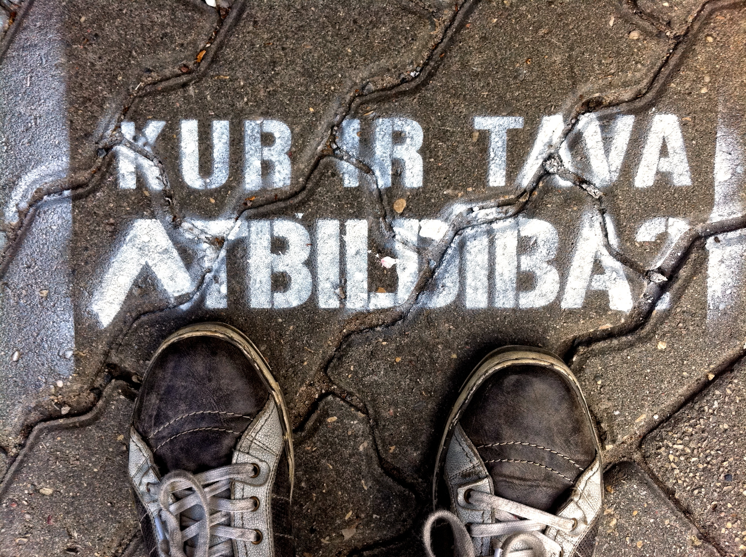 A stencil of Responsibility alliance in the streets of Riga.